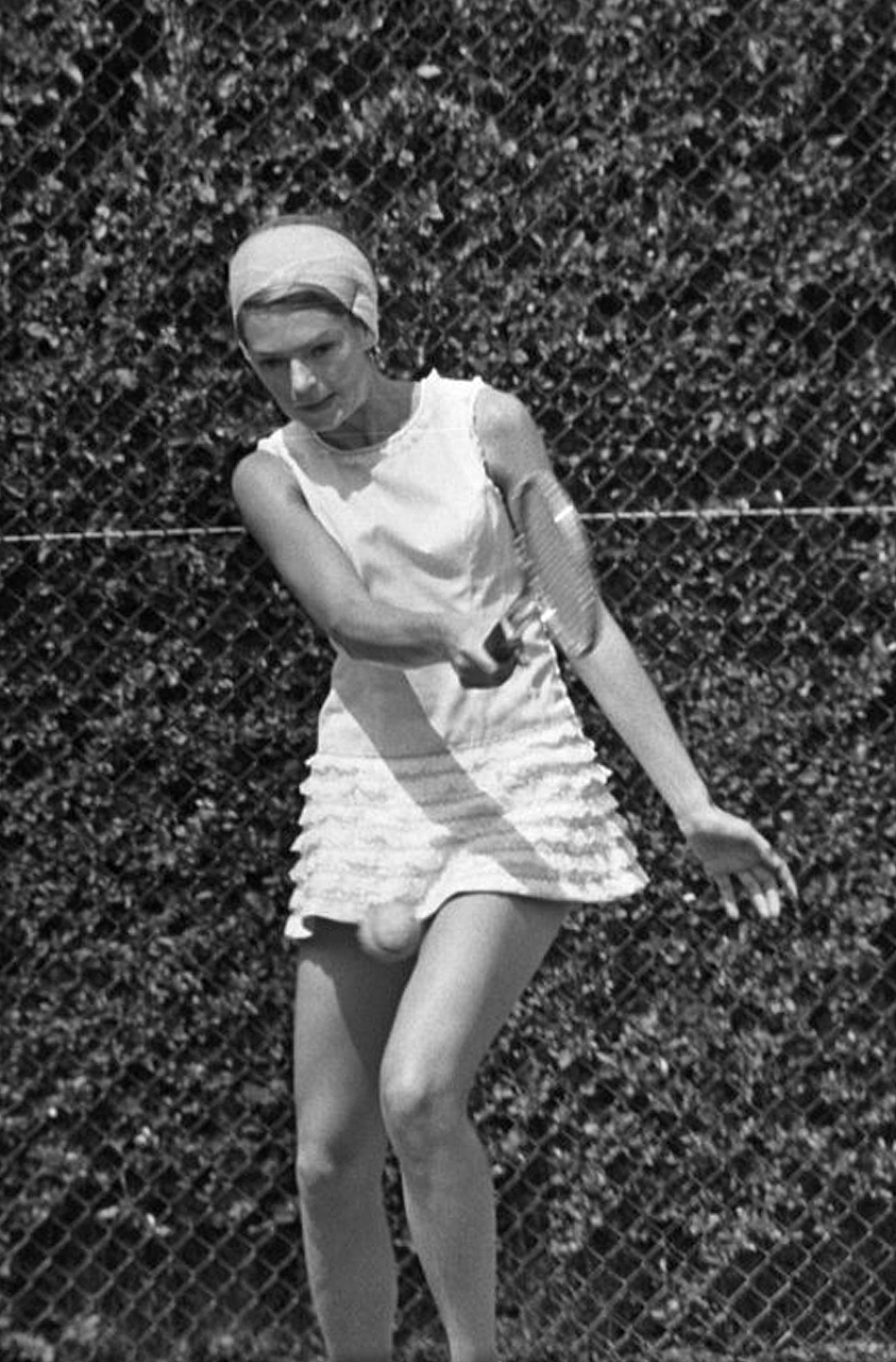 German tennis player Helga Niessen at the 1970 Dutch Open in Hilversum.